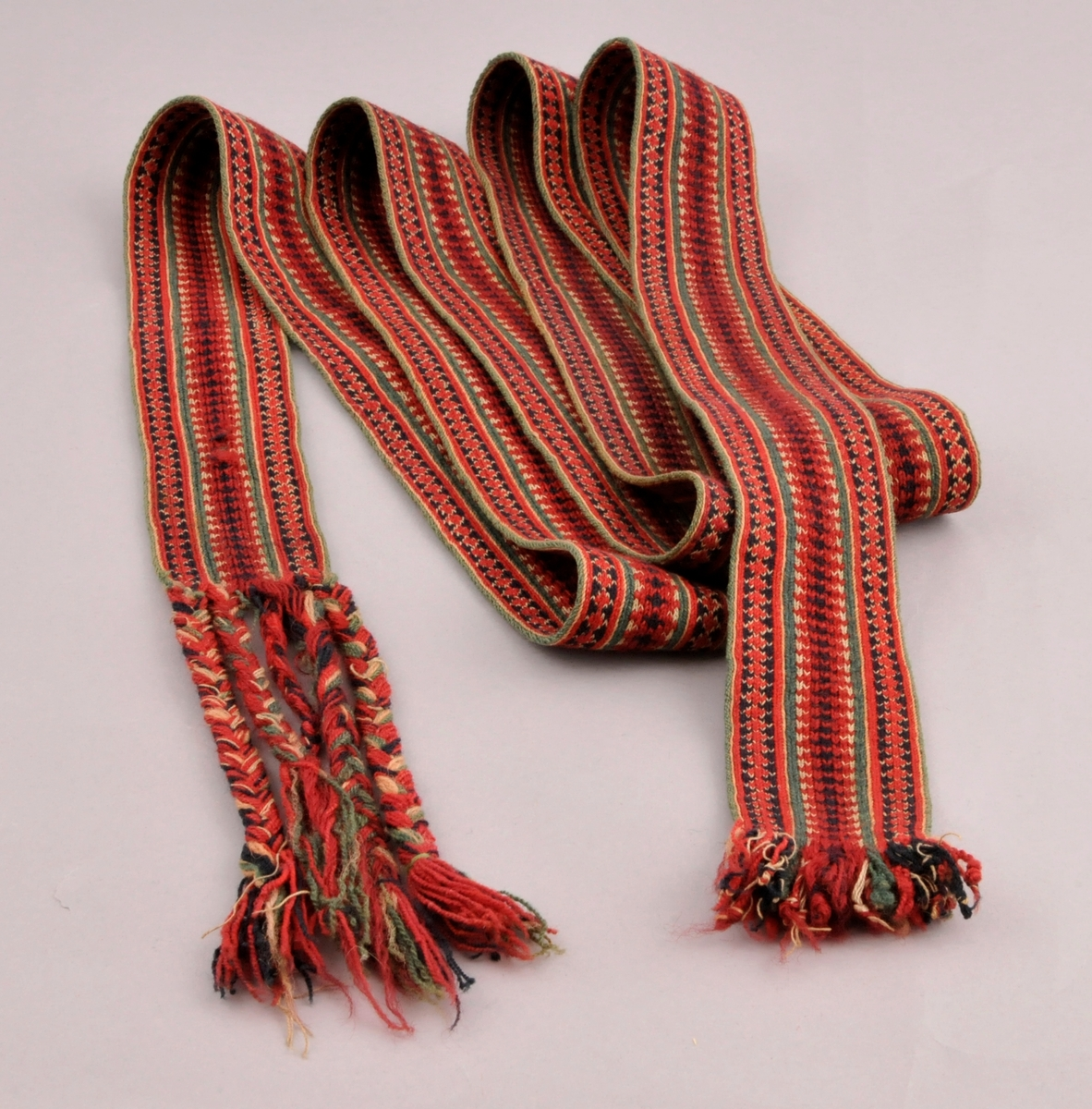 Tablet woven/card woven woolen belt, for a Norwegian folk costume (bunad)